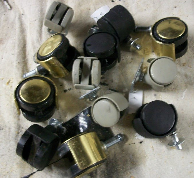 Wheels for shelves can cost $5 to $10 for new strong ones. But these were taken from a junk yard from the bottoms of discarded chairs and carts. They're good wheels, recycled, so there's no expense, and they can be used to make movable shelves as a storage solution for basements. Source of picture: here (see public domain declaration at top of article). Questions: Write to my Wikipedia page or email me at